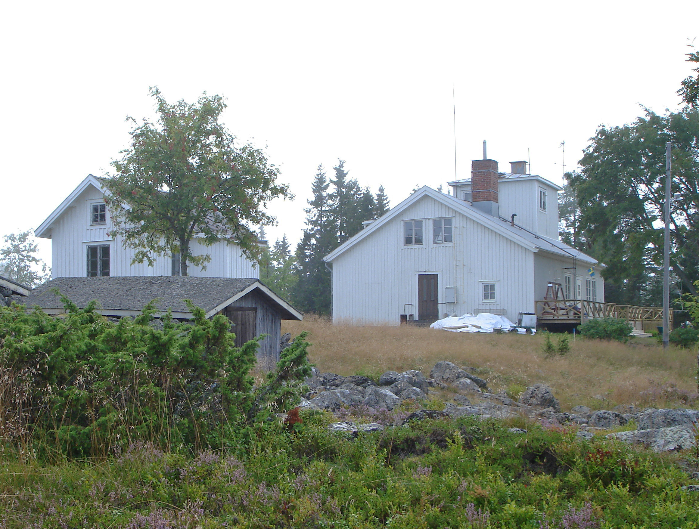 Pilot's houses on Bredskär, Västerbotten county, Sweden